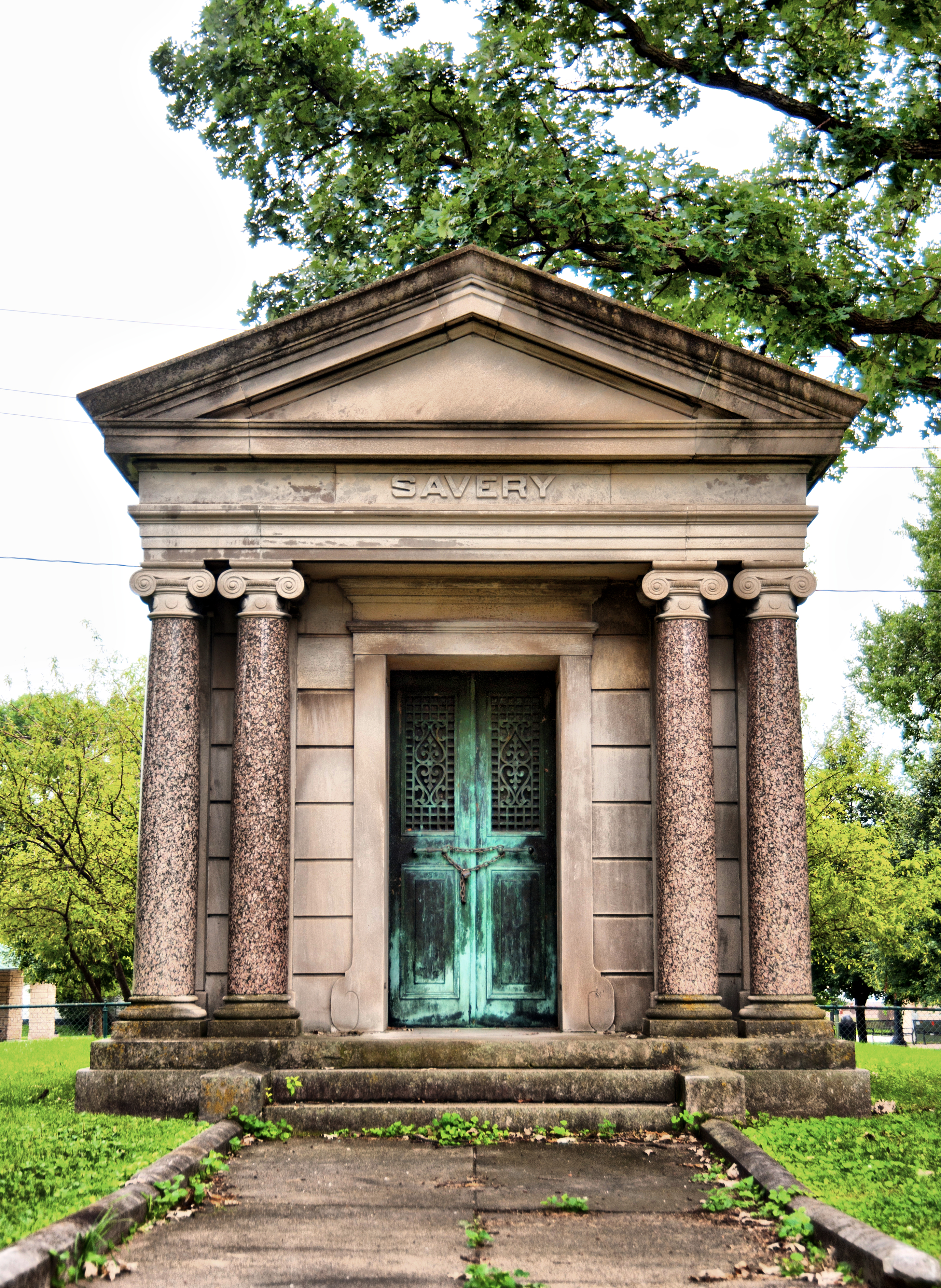 A short trip through Woodland Cemetery in Des Moines, Iowa.